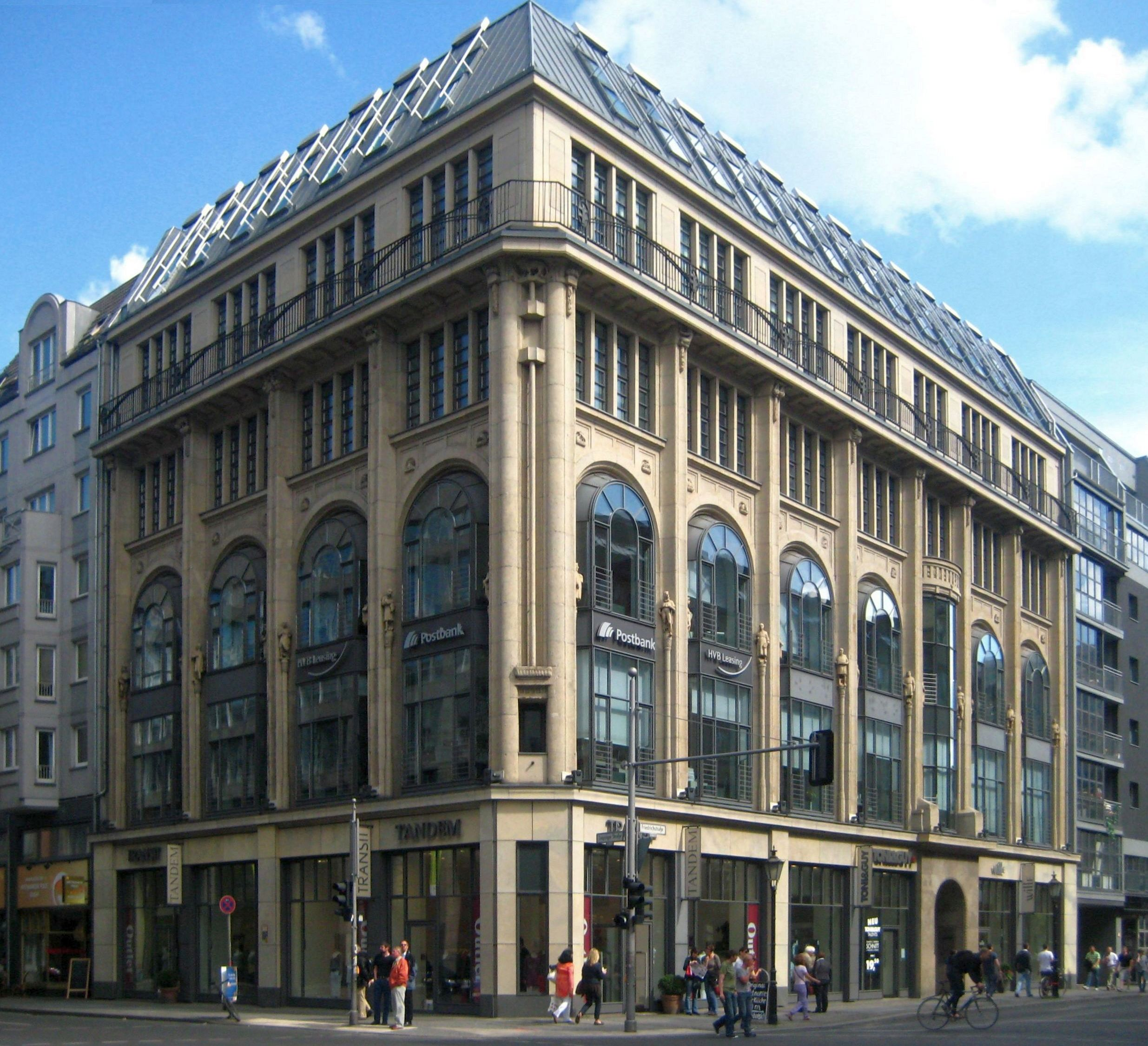 The former department store "Moritz Mädler" at Friedrichstraße 56, corner of Leipziger Straße (on the left) in Berlin Mitte, built 1909 to a design by architect Robert Leibnitz. This is one of only four preserved historic commercial buildings on Leipziger Straße. The building originally had small shops on the ground floor. The rooms of the department store were above, behind the arches of the facade. The top stories were likely occupied by stoorage rooms. The facade ornaments by sculptor Richard Kühn include figures of craftsmen standing on engaged columns. The building is landmarked.